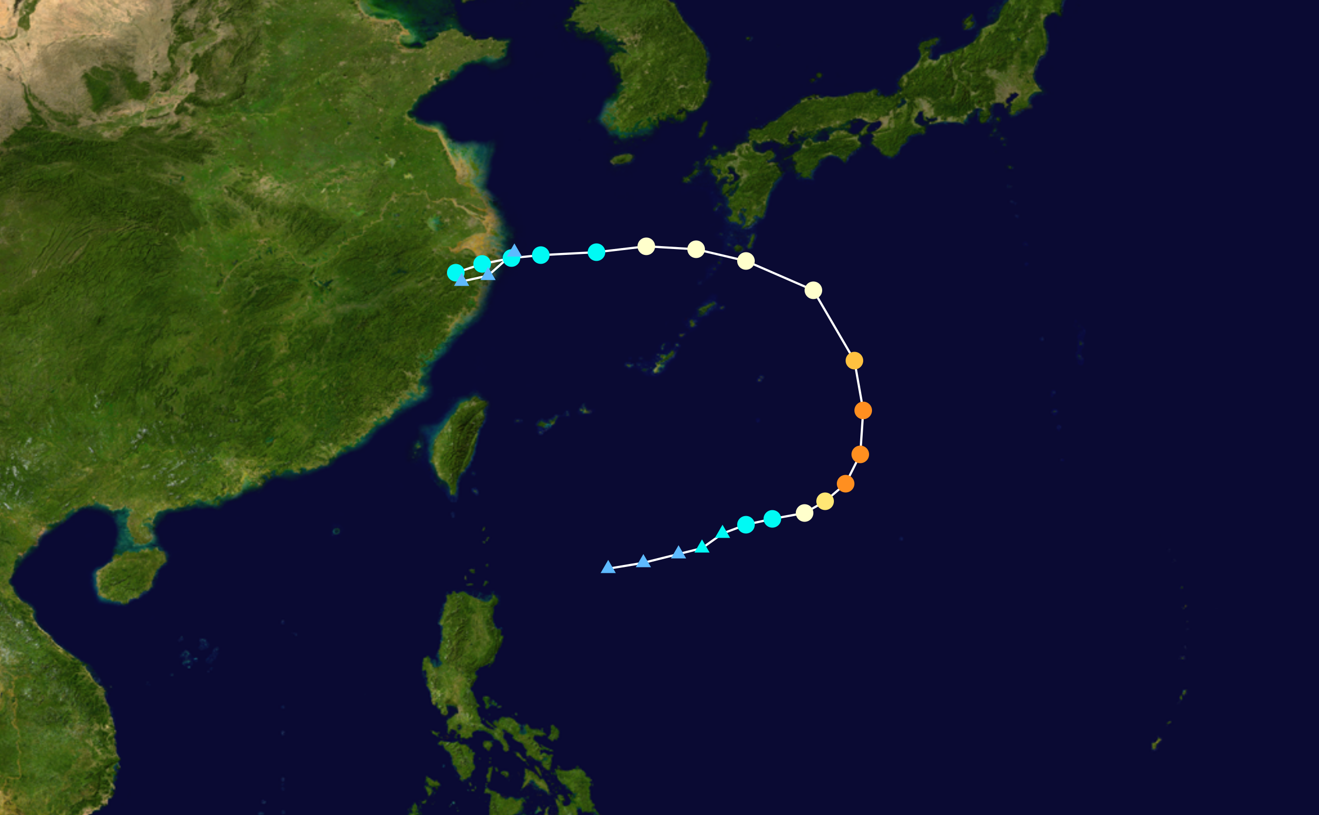 Track map of Typhoon Todd of the 1998 Pacific typhoon season. The points show the location of the storm at 6-hour intervals. The colour represents the storm's maximum sustained wind speeds as classified in the Saffir–Simpson scale (see below), and the shape of the data points represent the nature of the storm, according to the legend below. Saffir–Simpson scale Tropical depression≤38 mph≤62 km/h Category 3111–129 mph178–208 km/h Tropical storm39–73 mph63–118 km/h Category 4130–156 mph209–251 km/h Category 174–95 mph119–153 km/h Category 5≥157 mph≥252 km/h Category 296–110 mph154–177 km/h Unknown Storm type Tropical cyclone Subtropical cyclone Extratropical cyclone / Remnant low / Tropical disturbance / Monsoon depression